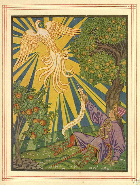 Template:Eb